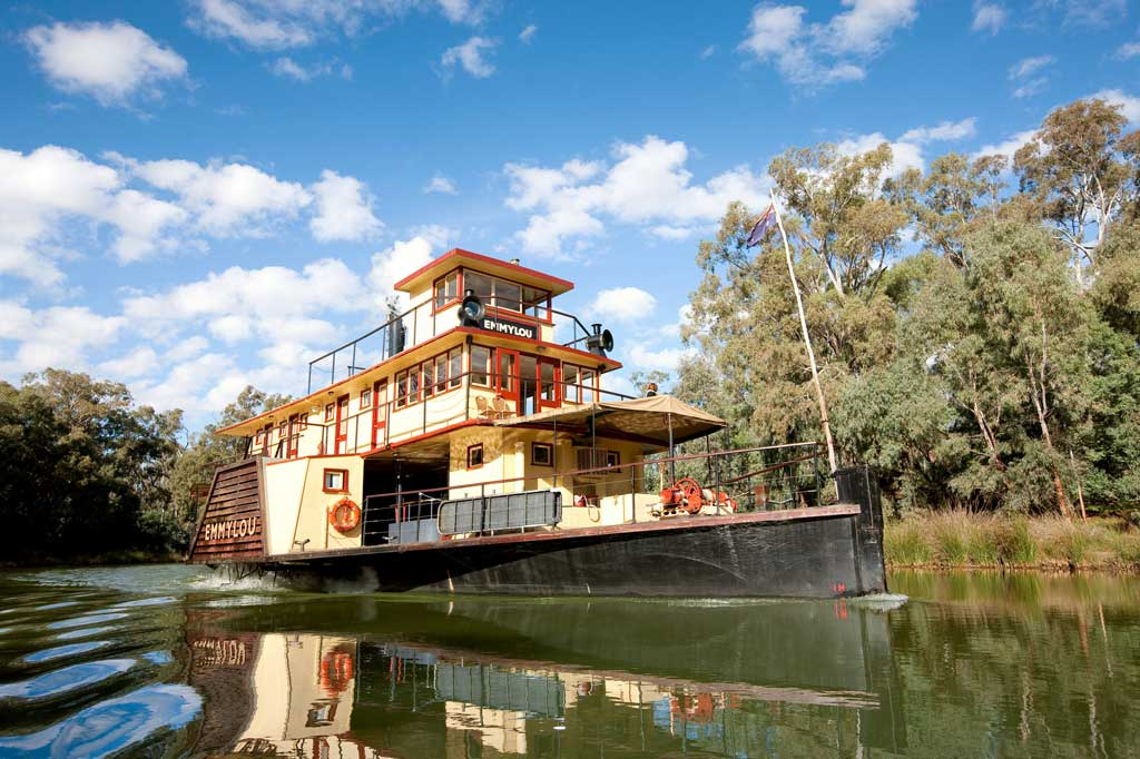 The Magnificent P.S Emmylou Underway on the Murray River